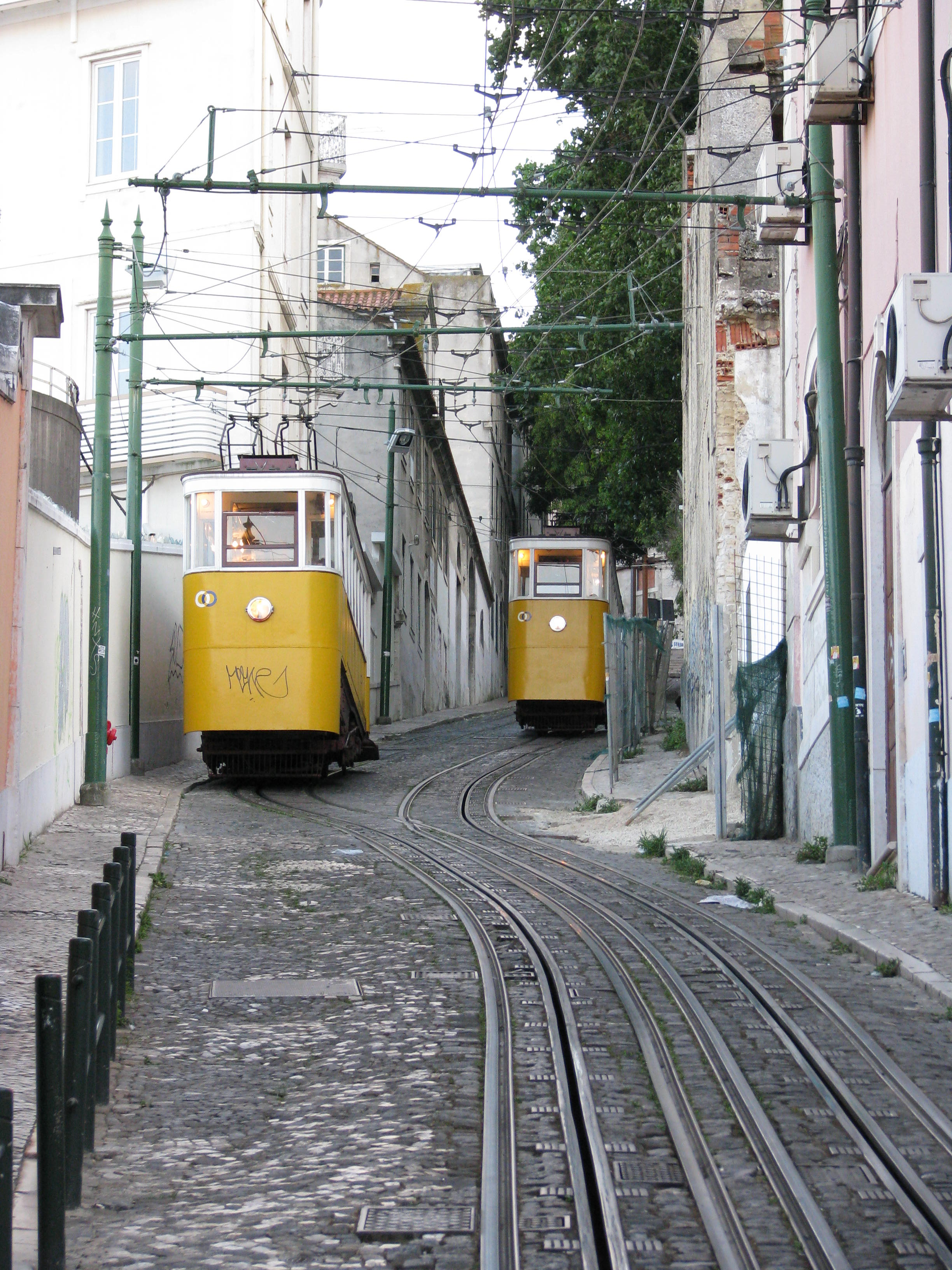 Glória Funicular, Lisbon, Portugal